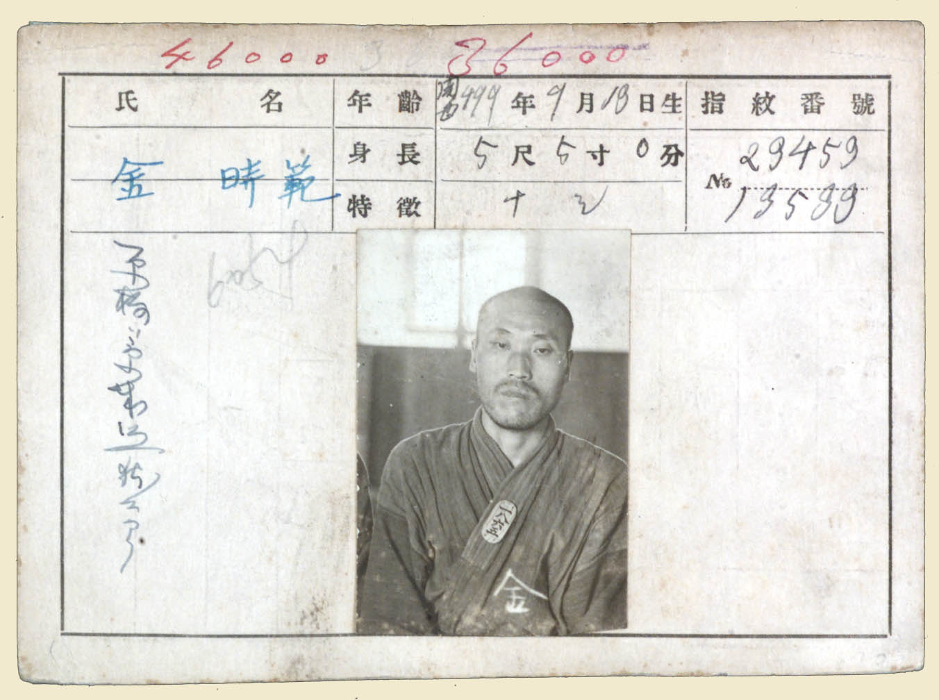 Prison Card of Kim Sibeom who was a Korean independence activist.